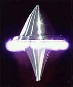 Lighcraft being propelled by laser